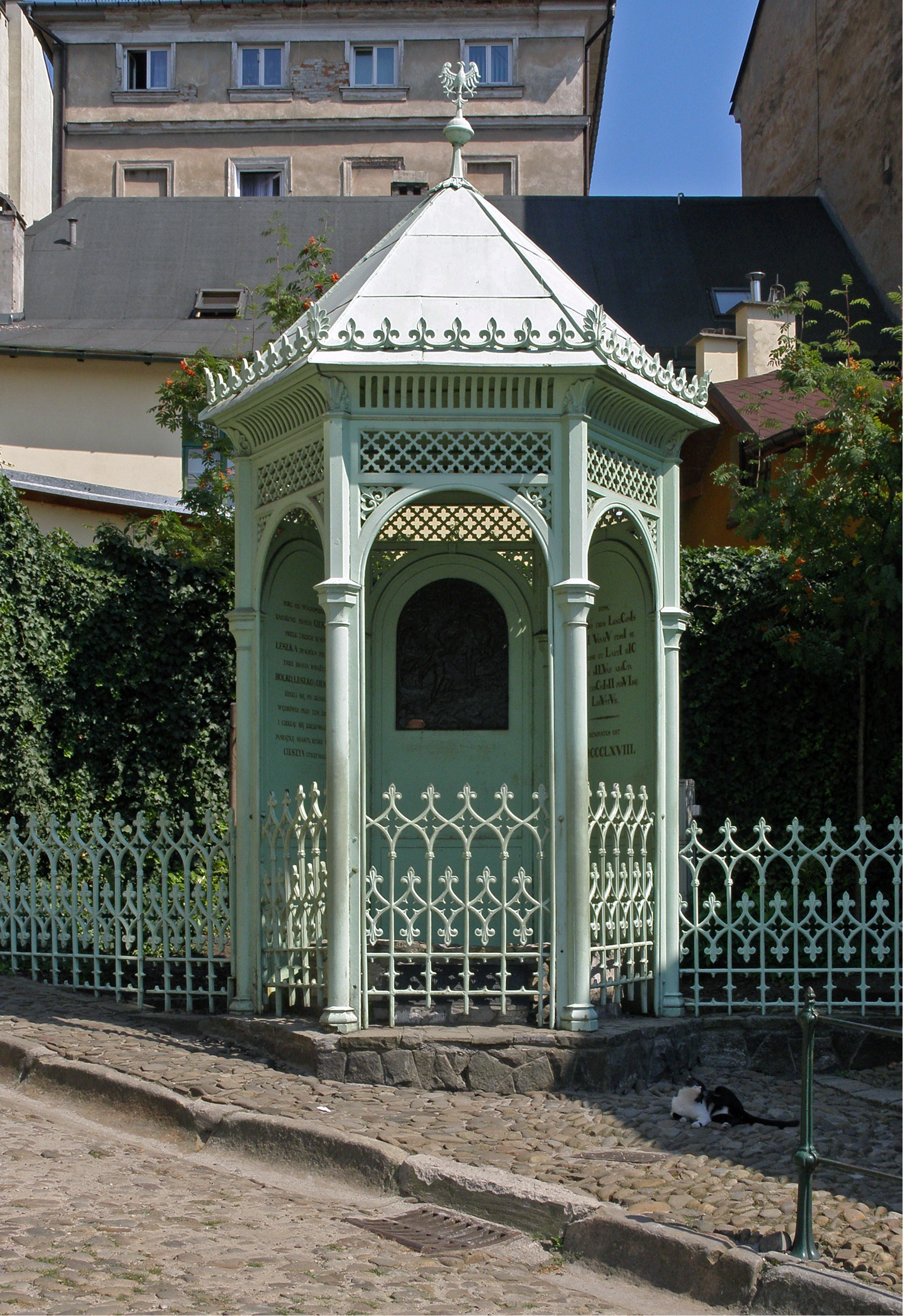 Three Brothers Fountain in Cieszyn Ta fotografia przedstawia zabytek wpisany do rejestru zabytków pod numerem ID 639394